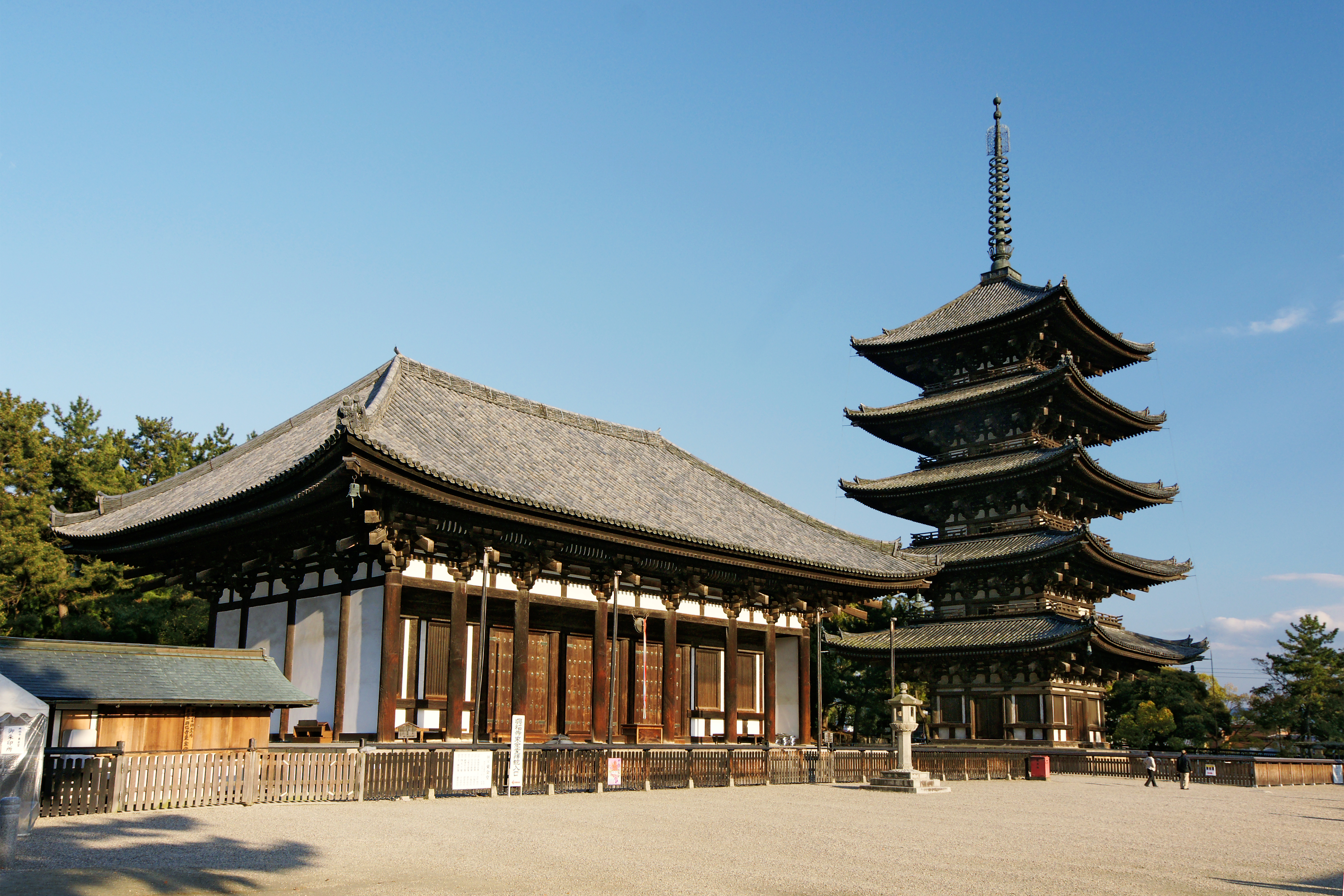 Tokondo (Japan's National Treasure) and Five-storied pagoda (Japan's National Treasure) of Kofukuji in Nara, Nara prefecture, Japan